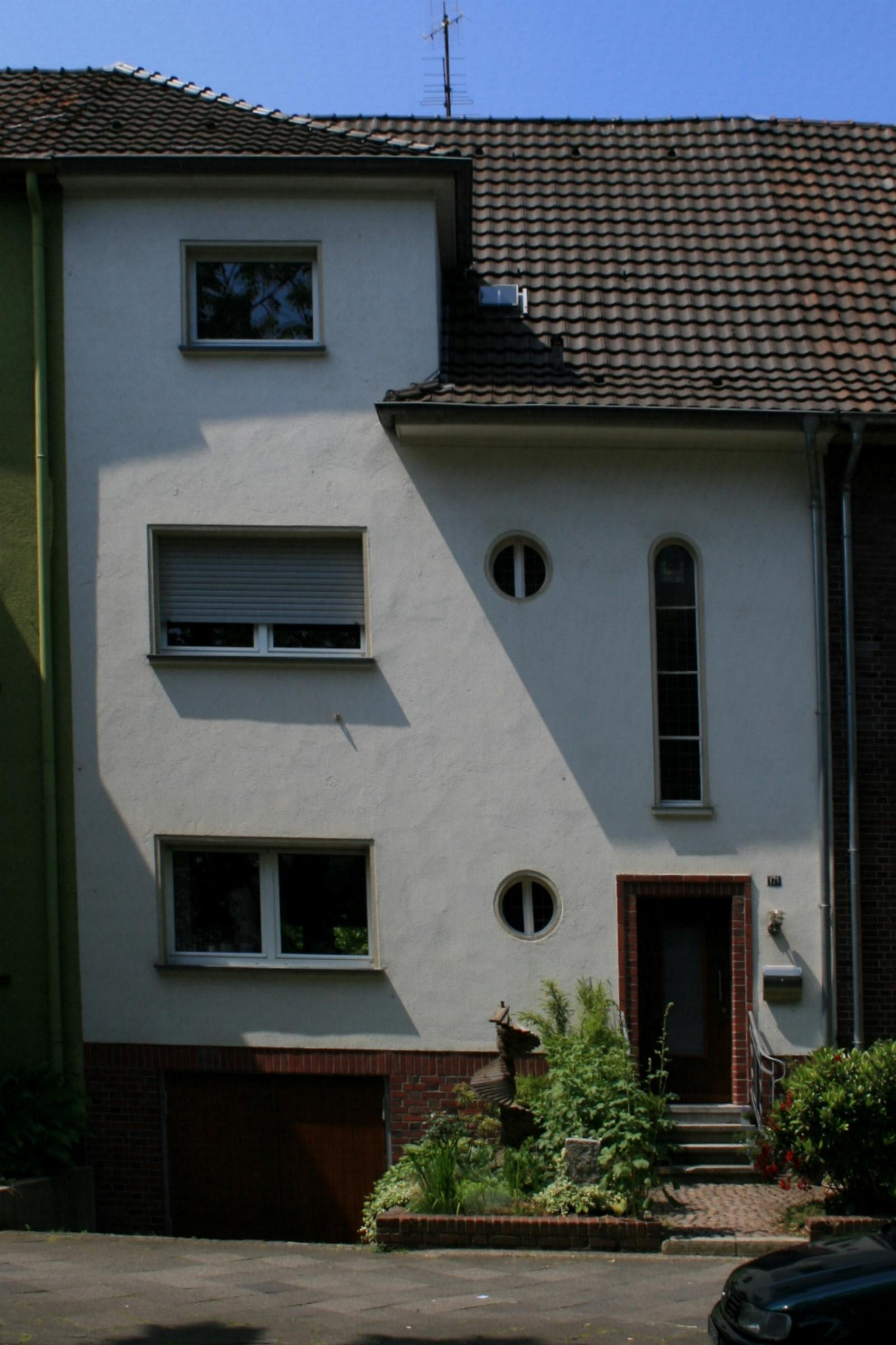 Cultural heritage monument No. B 113 in Mönchengladbach